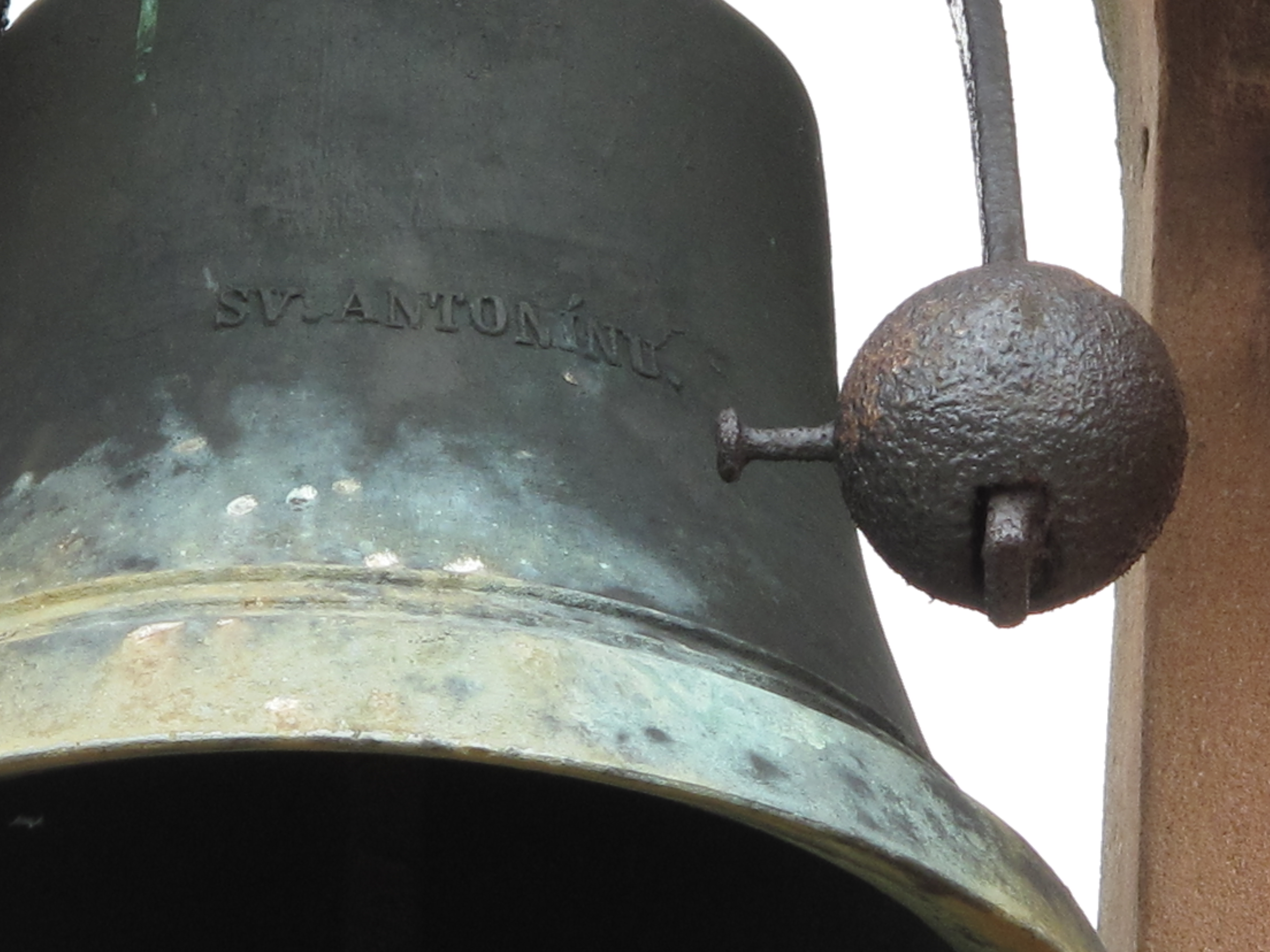 Bell with hammer in Bulánka village, Prague-East District, Czech Republic. Bell inscription (in Czech language): SV. ANTONÍNU. Might be translated like: TO ST. ANTHONY.